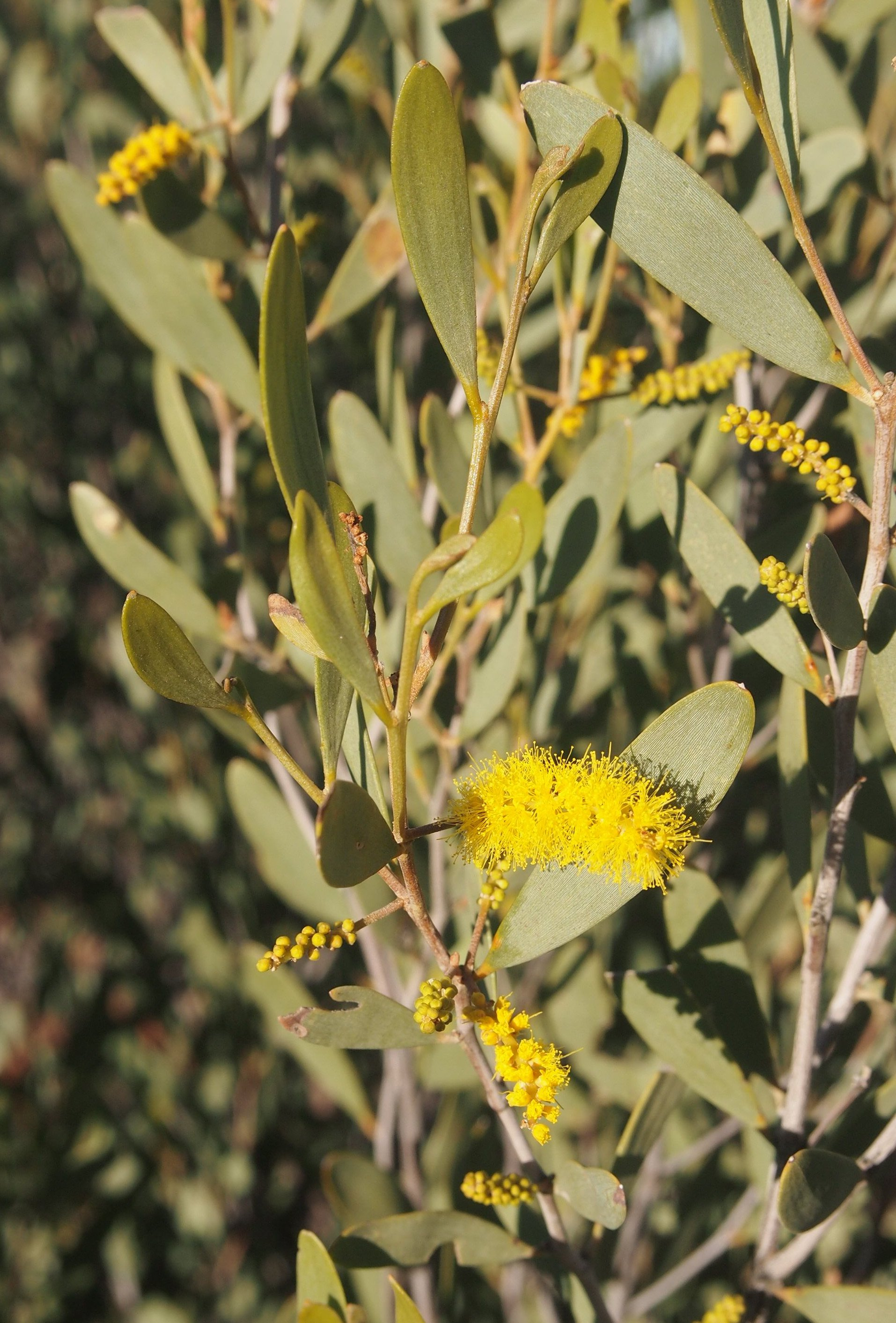 Acacia kempeana foliage and flowers